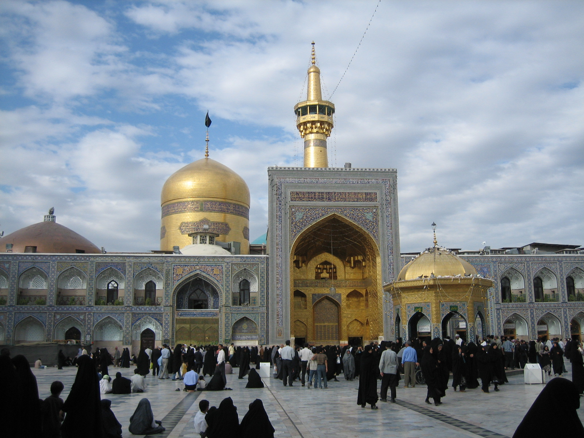 Author: IA Source: Taken at the shrine of Imam Ali Reda in Mashad, Iran, in August, 2005.